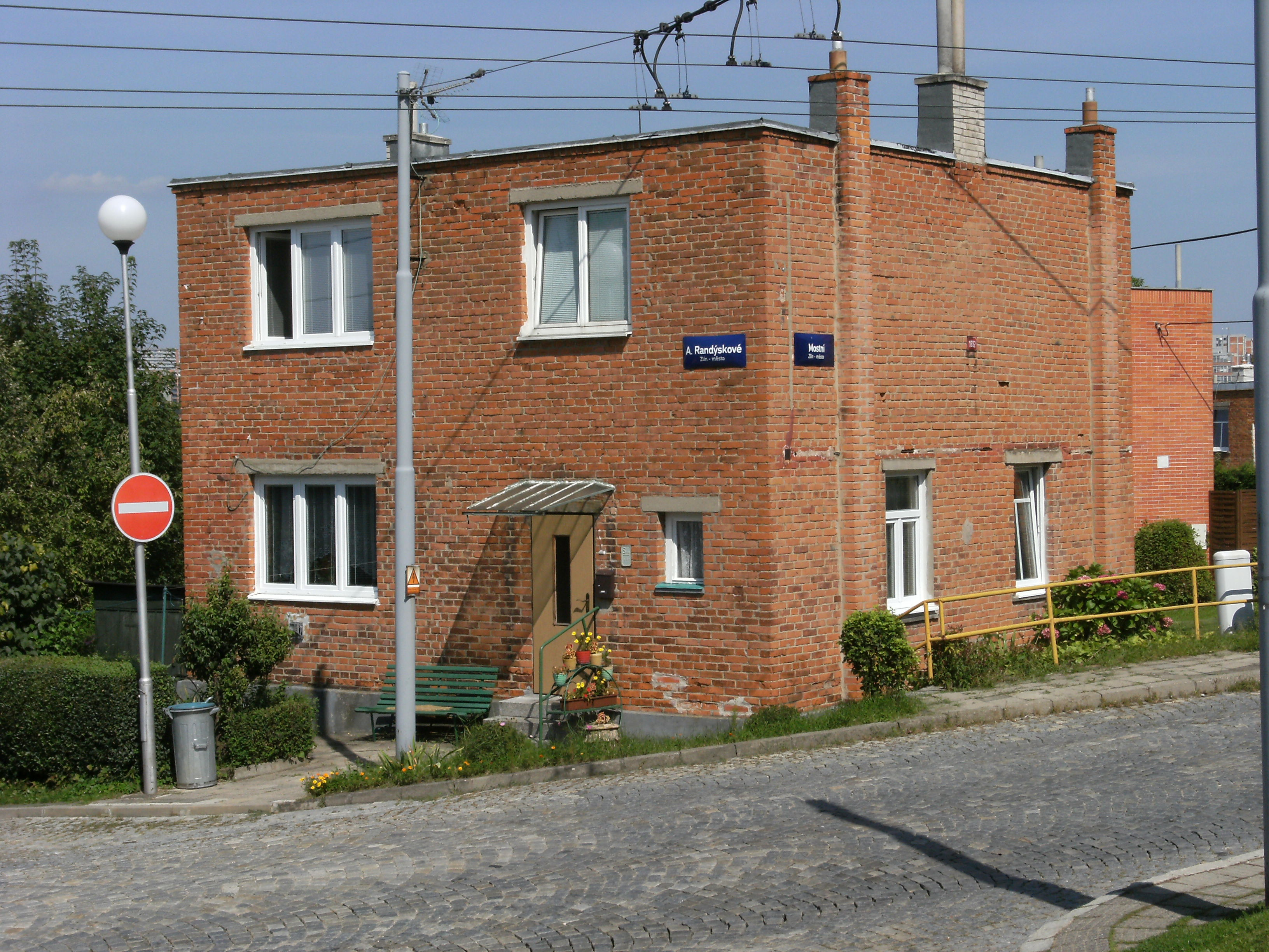 Social housing in Zlín.